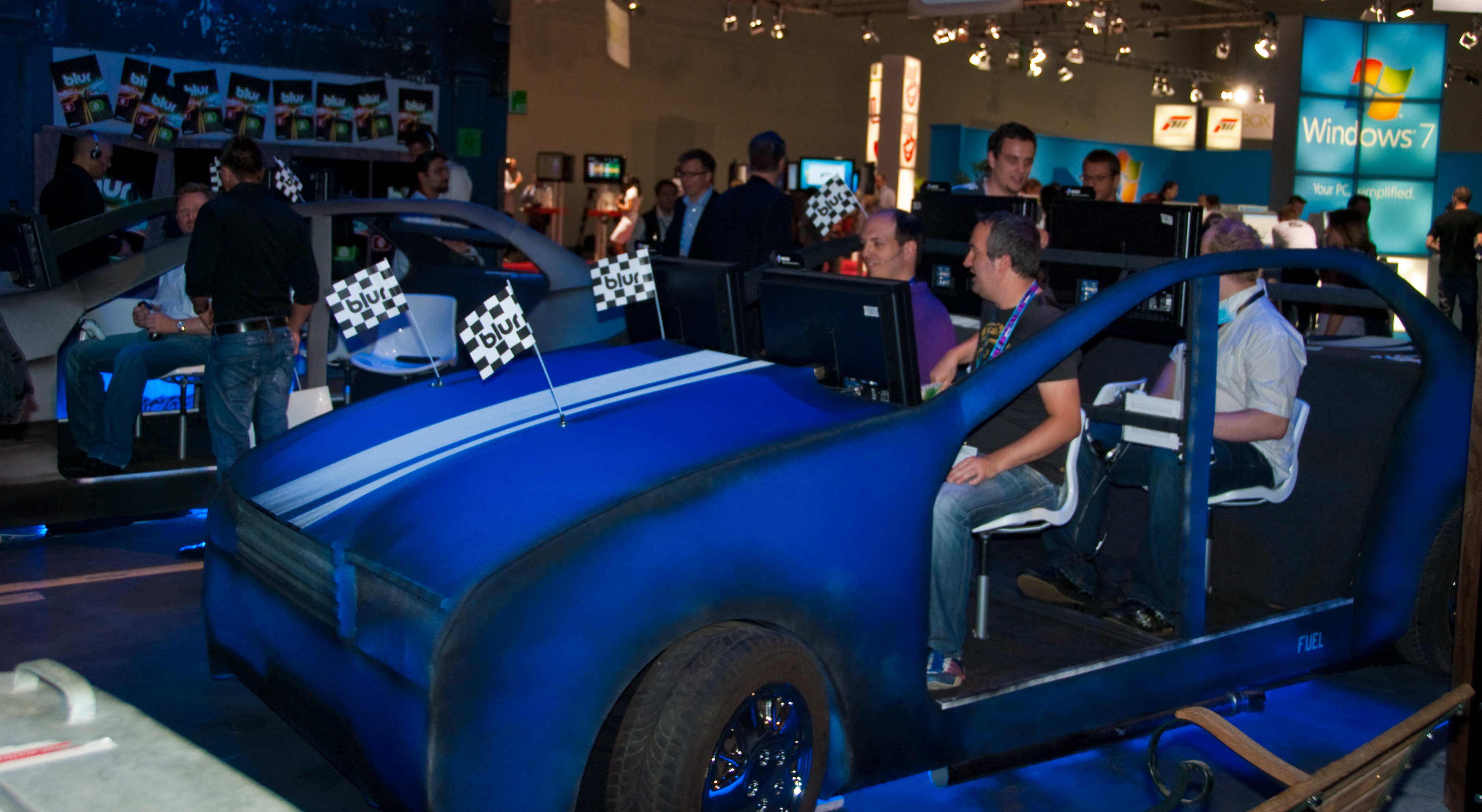 Blur at GamesCom